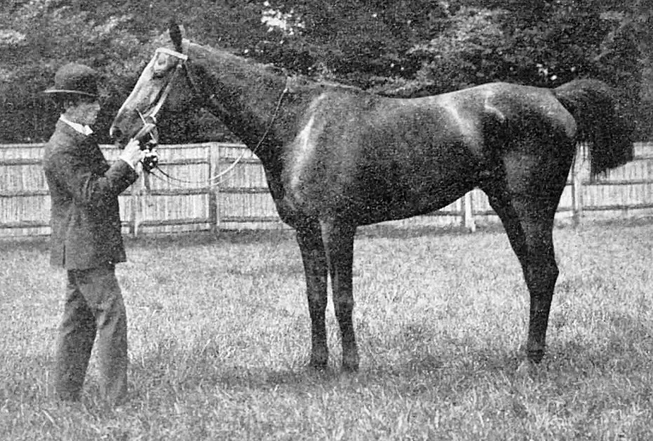 Limasol, winner of the 1897 Epsom Oaks.